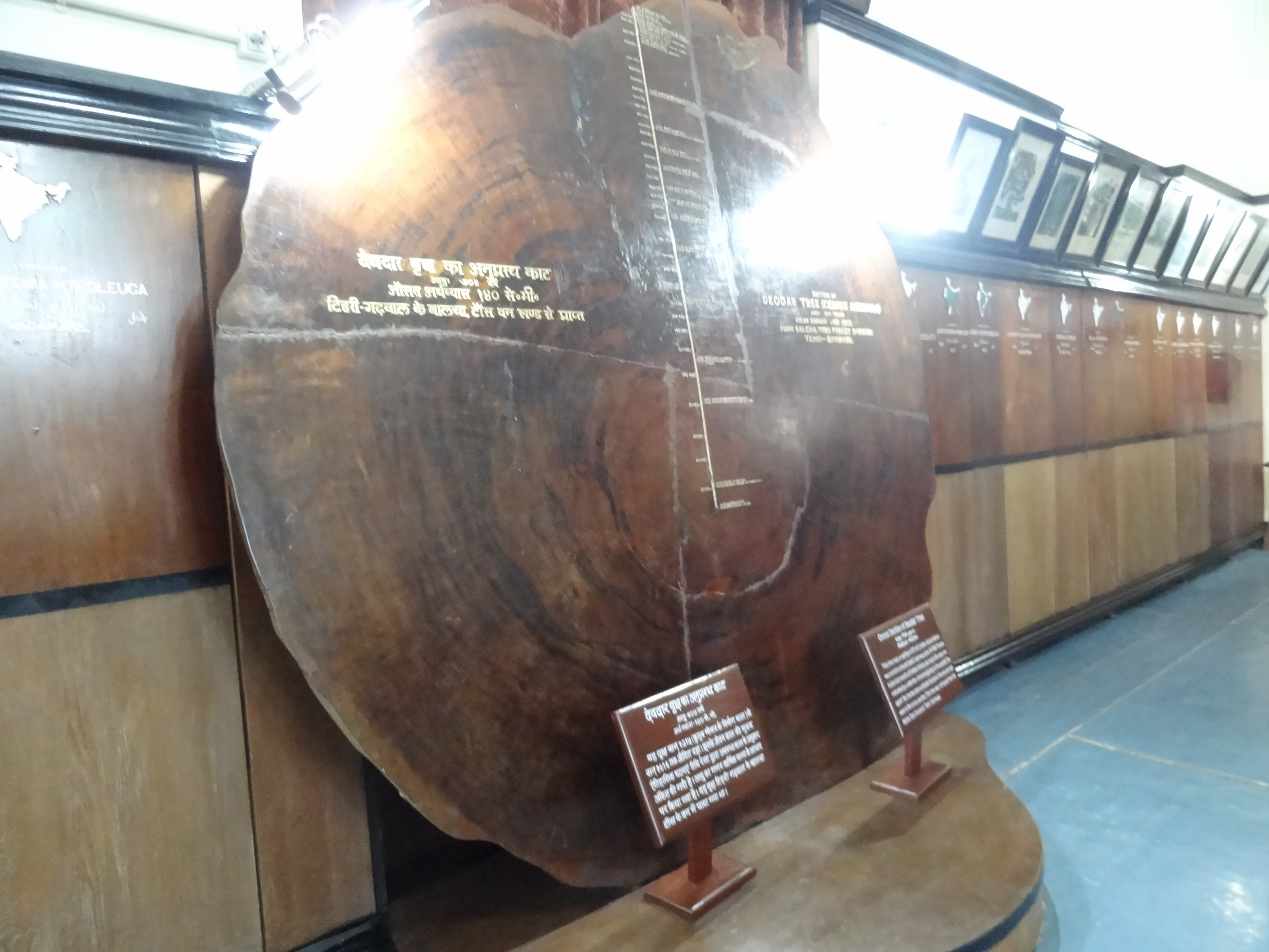 Exhibits at Timber Museum, FRI Dehradun